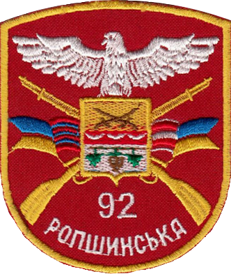 Shoulder sleeve insignia of the Ukrainian Army 92nd Mechanized Infantry Brigade.